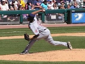 Author: BarenakedKevin. This is a cropped photo of baseball pitcher Fausto Carmona. I took the original photo on April, 15 2006 at Detriot's Comerica Park during a game between the Cleveland Indians and the Detriot Tigers. The starting pitching assignment for Carmona was his Major League Debut, in which he received the Win. 20:59, 7 March 2008 . . BarenakedKevin . . 285×215 (31 KB)